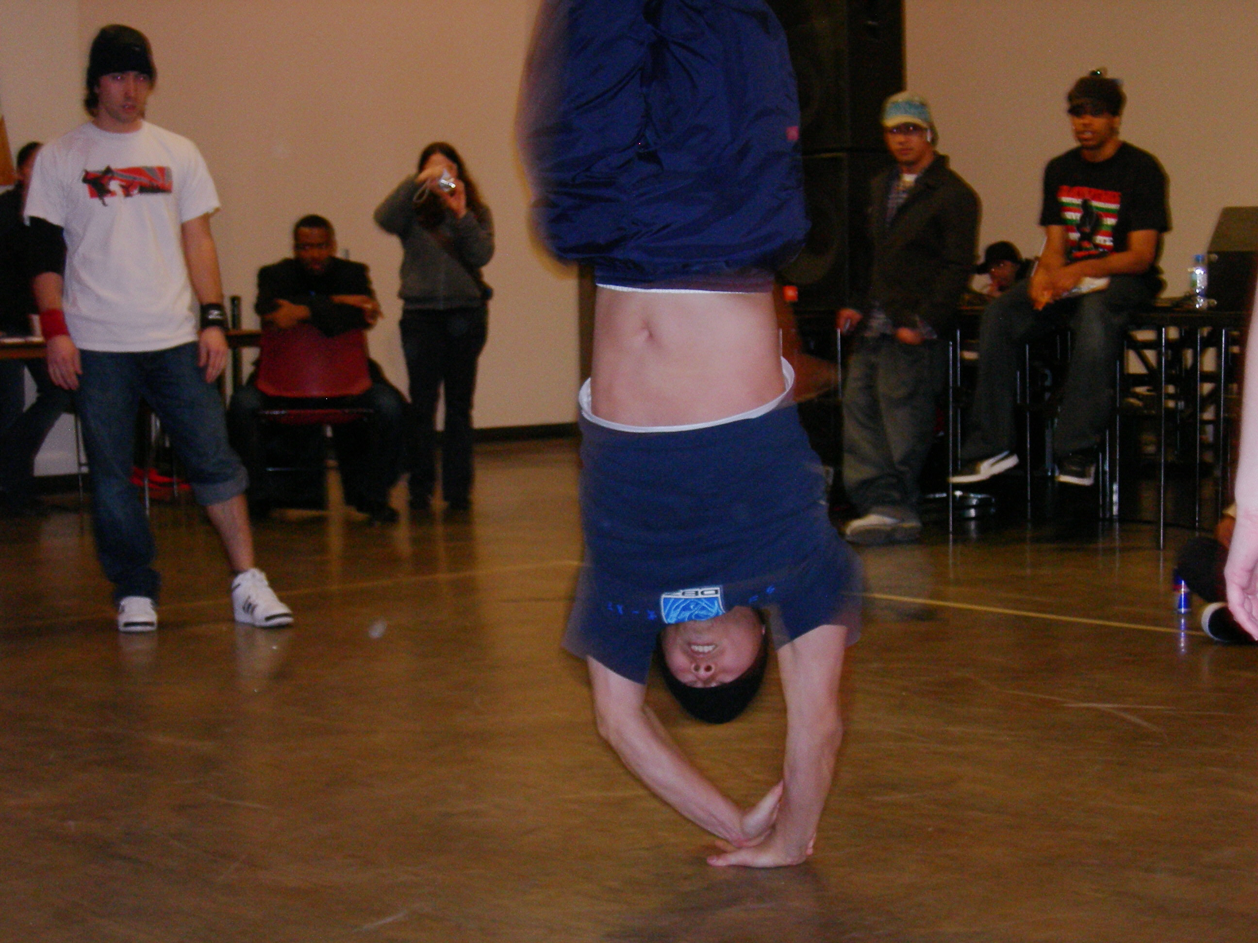 Dance competition. Third Anniversary of Zulu Nation Seattle Celebration of Hip Hop Culture, part of Festival Sundiata, a Festál event at Seattle Center, Seattle, Washington.